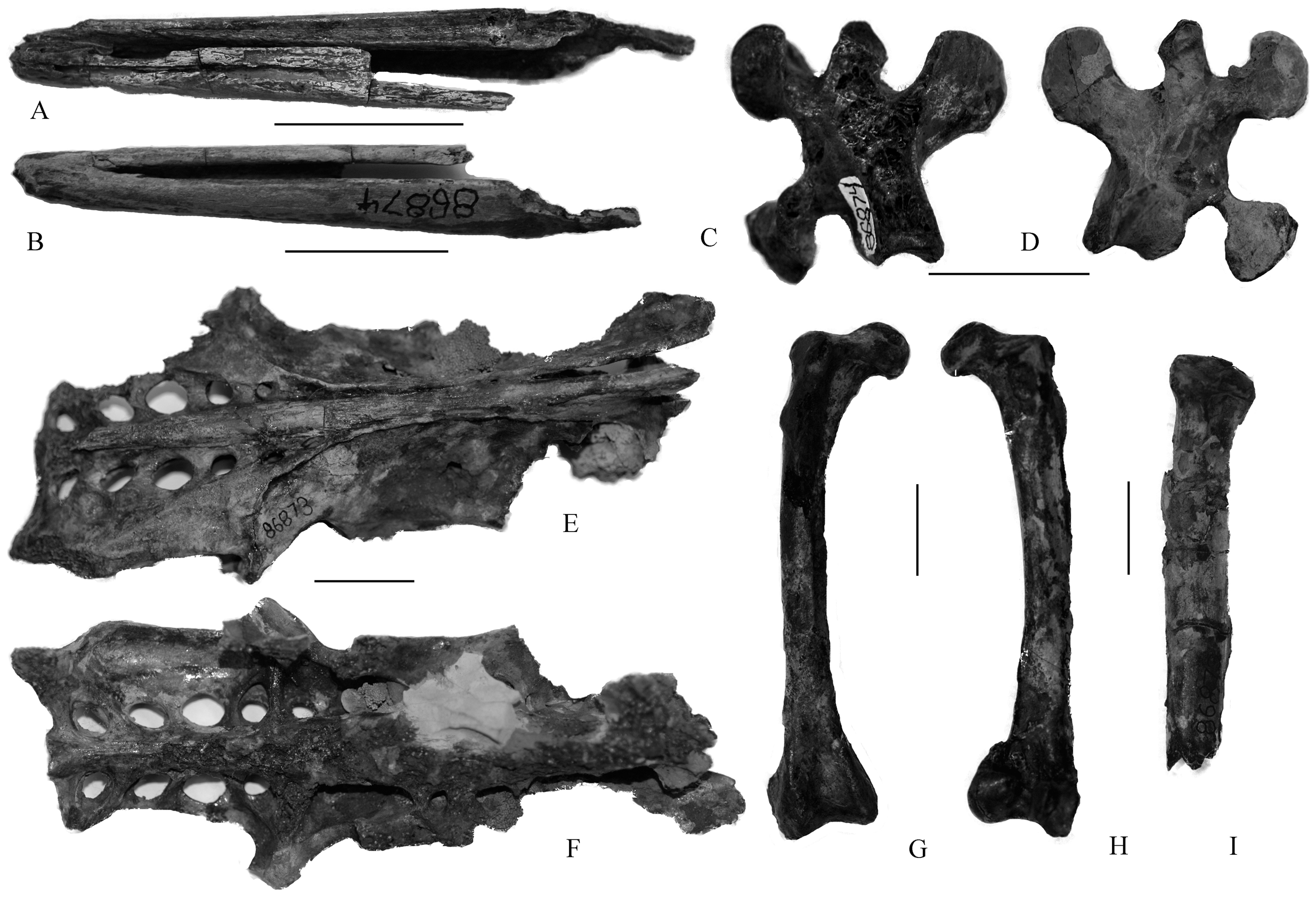 Fossil material referred to Tonsala hildegardae. A–D, dentary in dorsal (A) and ventral (B) views, UWBM 86874. C–D, cervical vertebrate in dorsal (C) and ventral (D) view, UWBM 86874. E–F, pelvis in dorsal (E) and ventral (F) view, UWBM 86873. G–H, right femur in cranial (G) and caudal (H) view, UWBM 86873. I, right tibiotarsus in caudal view, UWBM 86873. Scale bar is 2 cm.